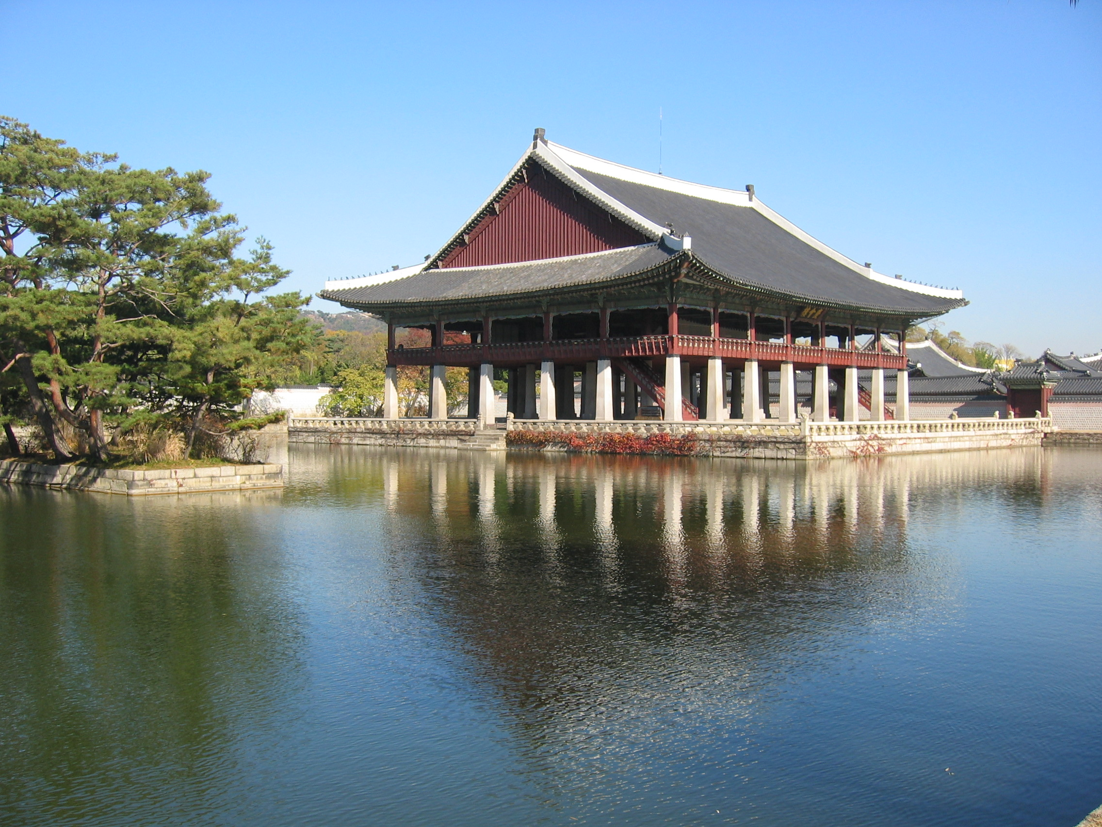 Gyeonghoeru(pavillion) in Gyeongbokgung Palace in Seoul, South Korea.